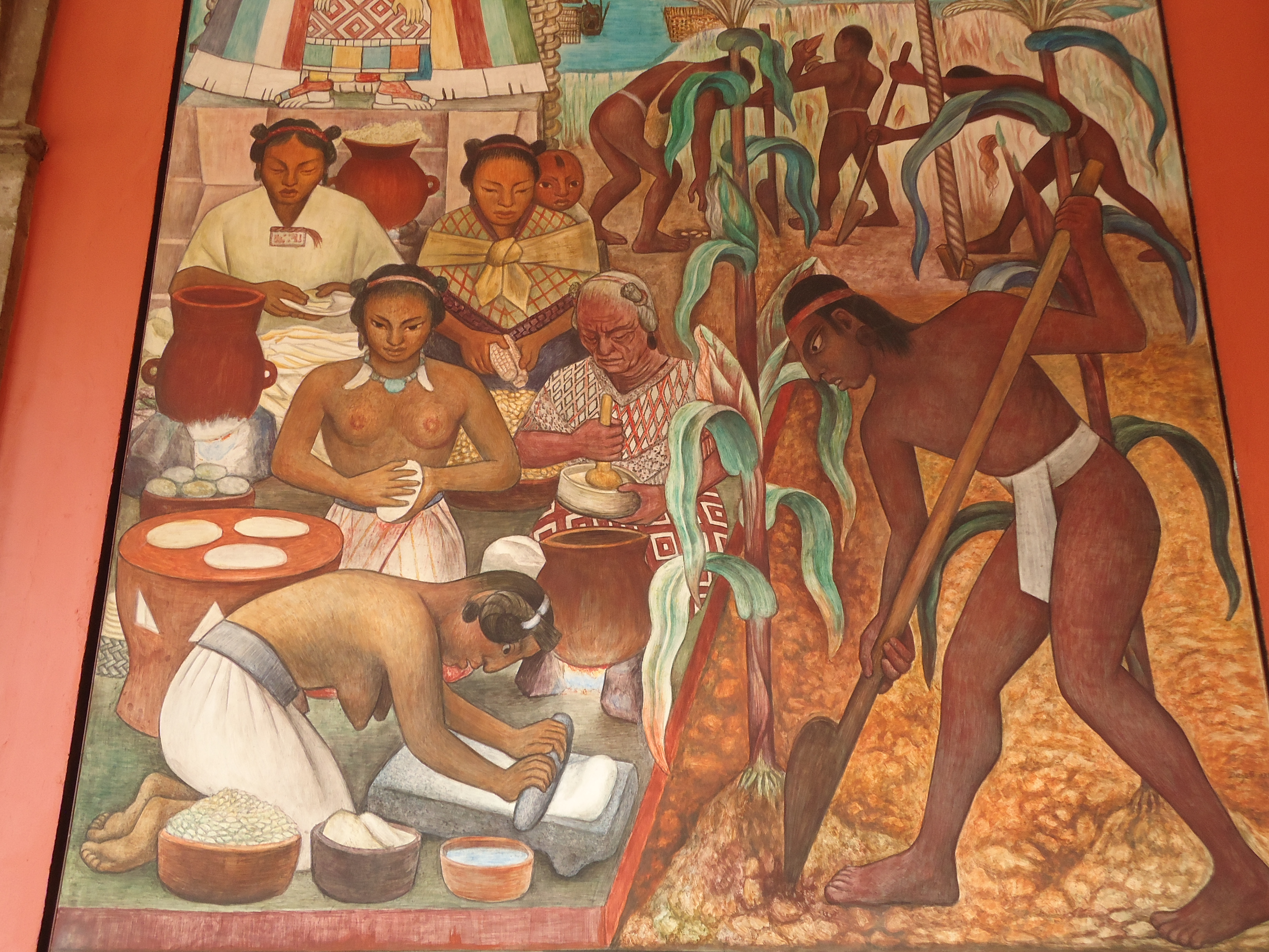 The Maize by Diego Rivera in the Palacio Nacional, detail